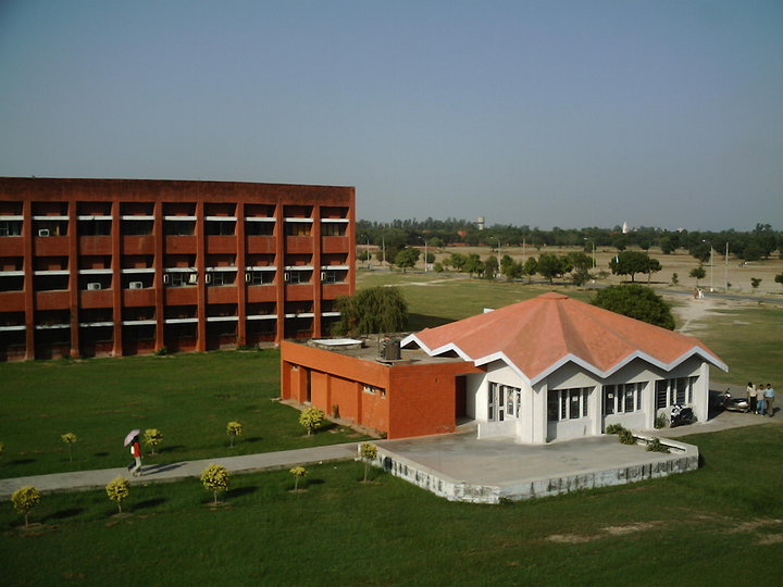 This picture depicts the panoramic view of 'Deenbandhu Chhotu Ram University of Science and Technology' , the places being visible in the portrait is College canteen and Mechanical block of the college.